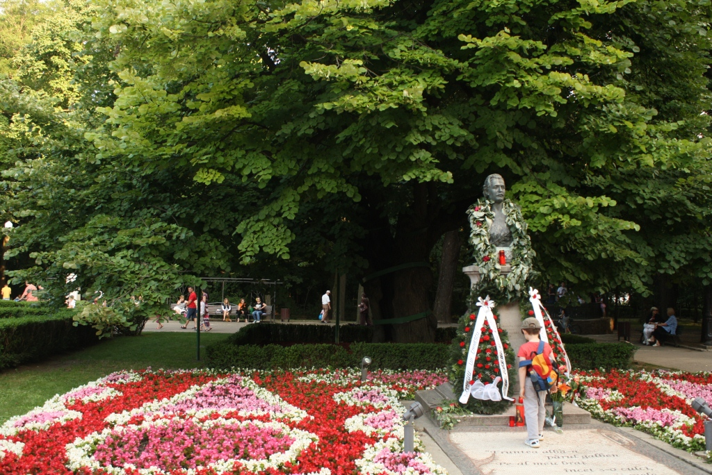 Eminescu's Linden Tree (June 2014)